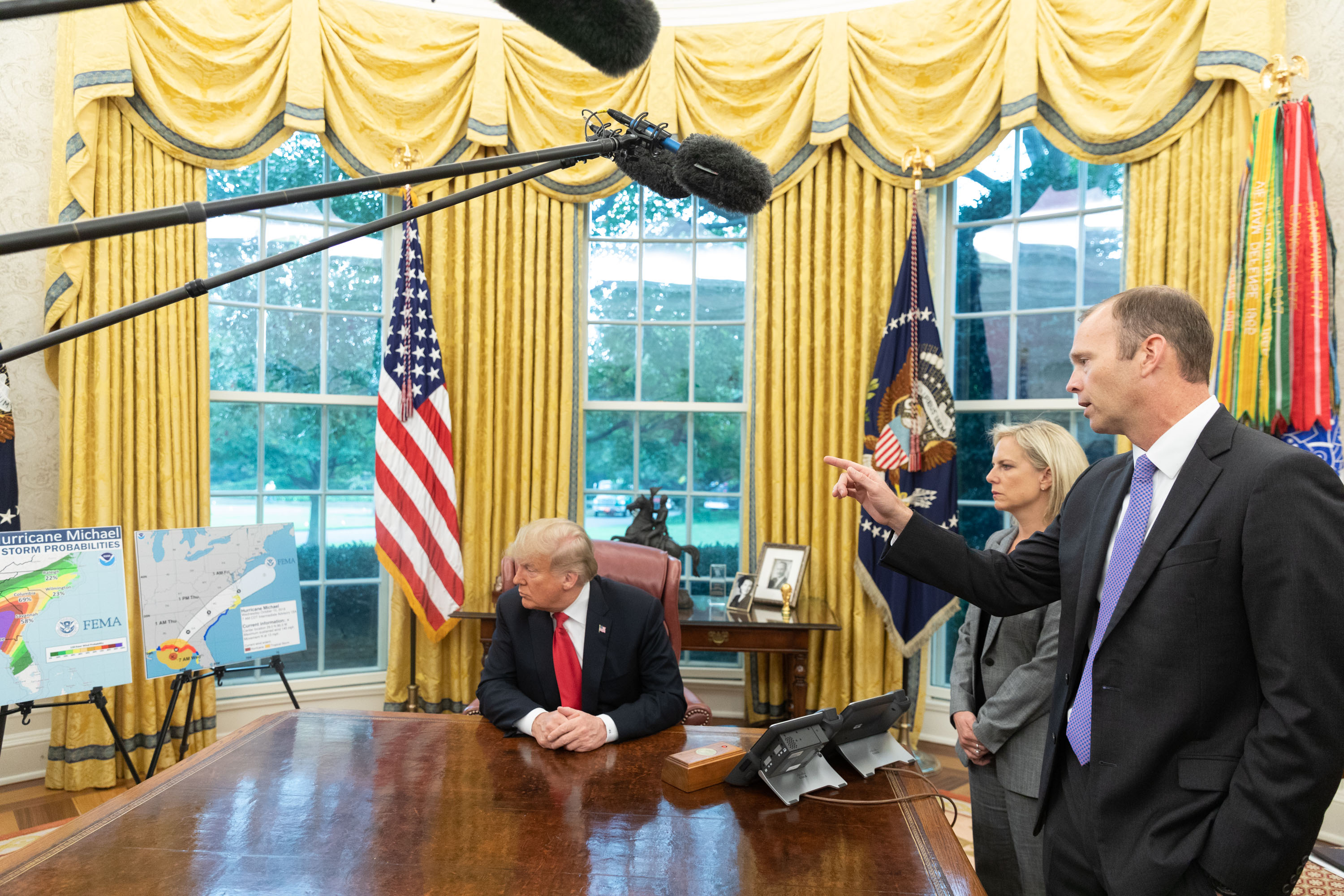 President Donald J. Trump, joined by Secretary of Homeland Security Kirstjen Nielsen, listens as FEMA Administrator Brock Long addresses reporters in the Oval Office of the White House Wednesday, Oct. 10, 2018, on the possible impact of Hurricane Michael to Florida and the southeast region of the United States. (Official White House Photo by Shealah Craighead)